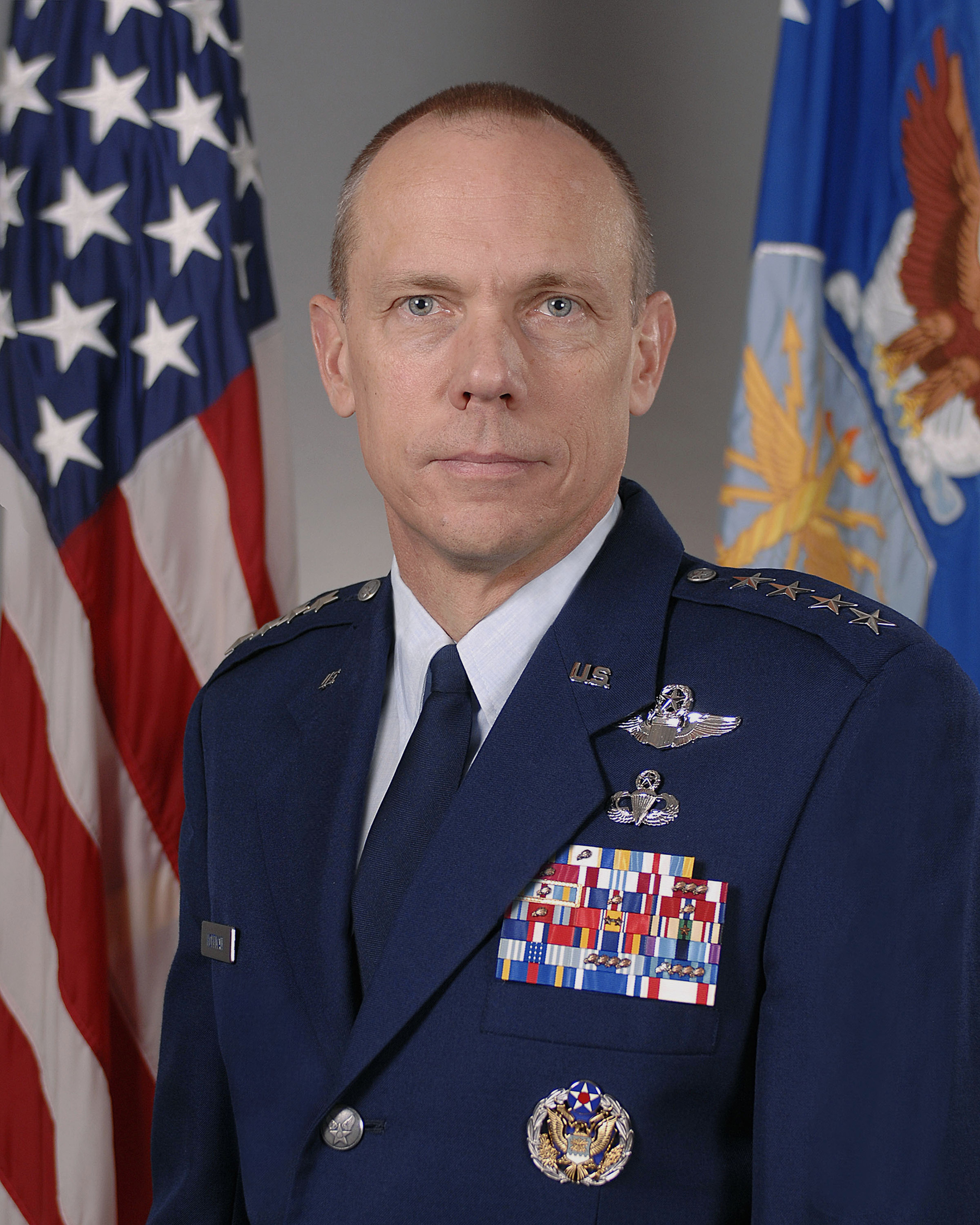 General Donald J. Hoffman, USAFCommander, Air Force Materiel Command